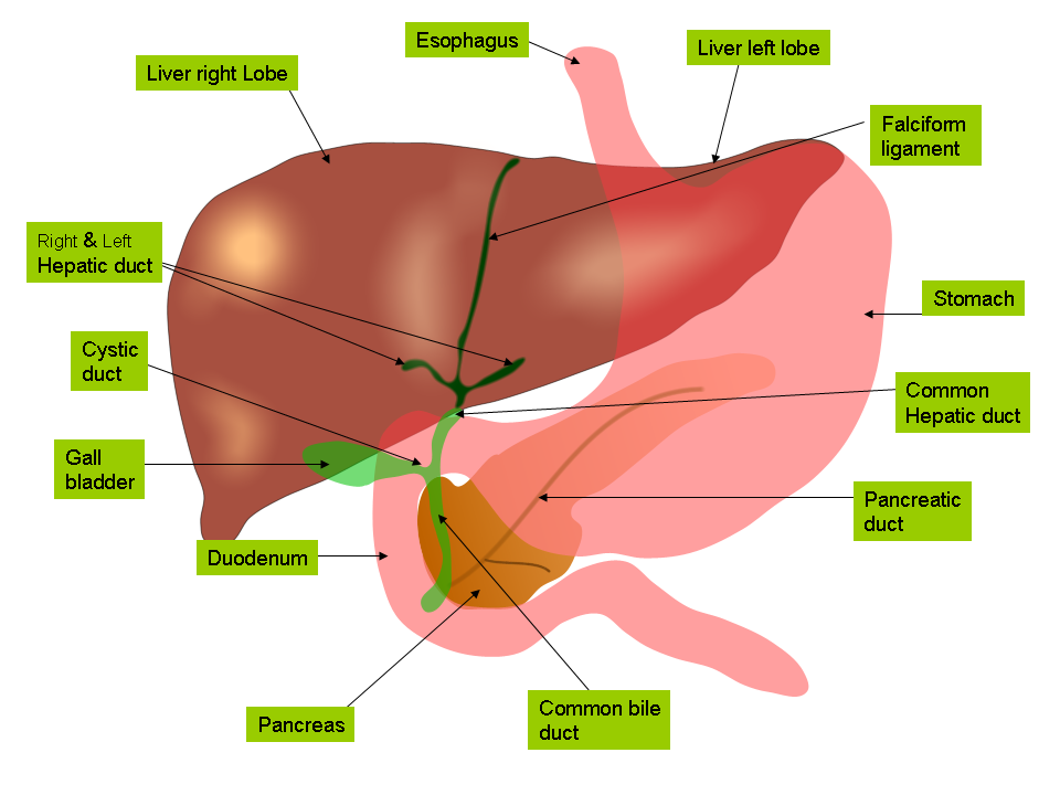 Anatomy of the biliary tree, liver and gall bladder